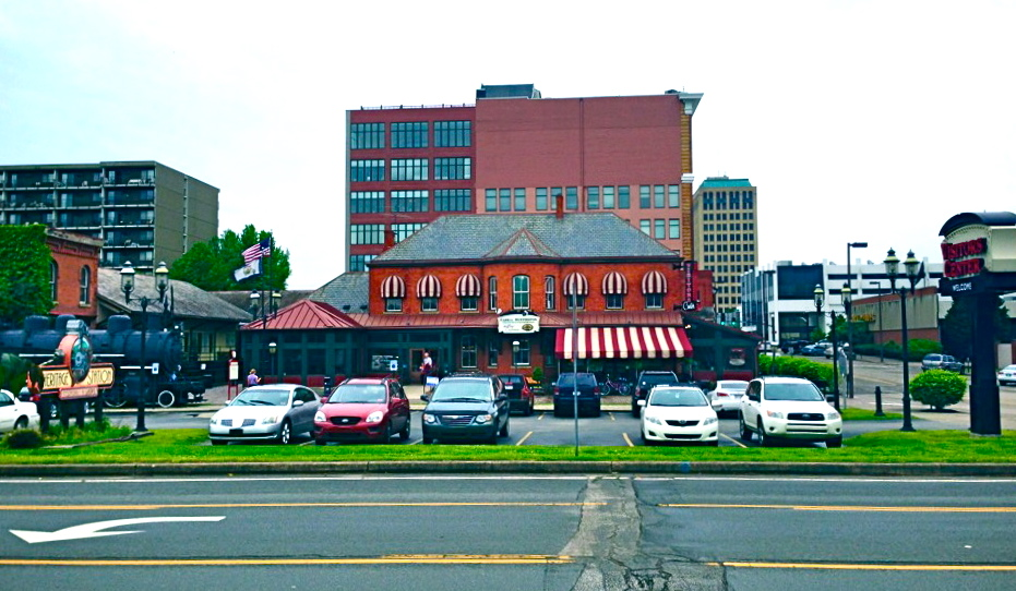 The Shops at Heritage Station, as seen from across Veteran's Memorial Blvd.